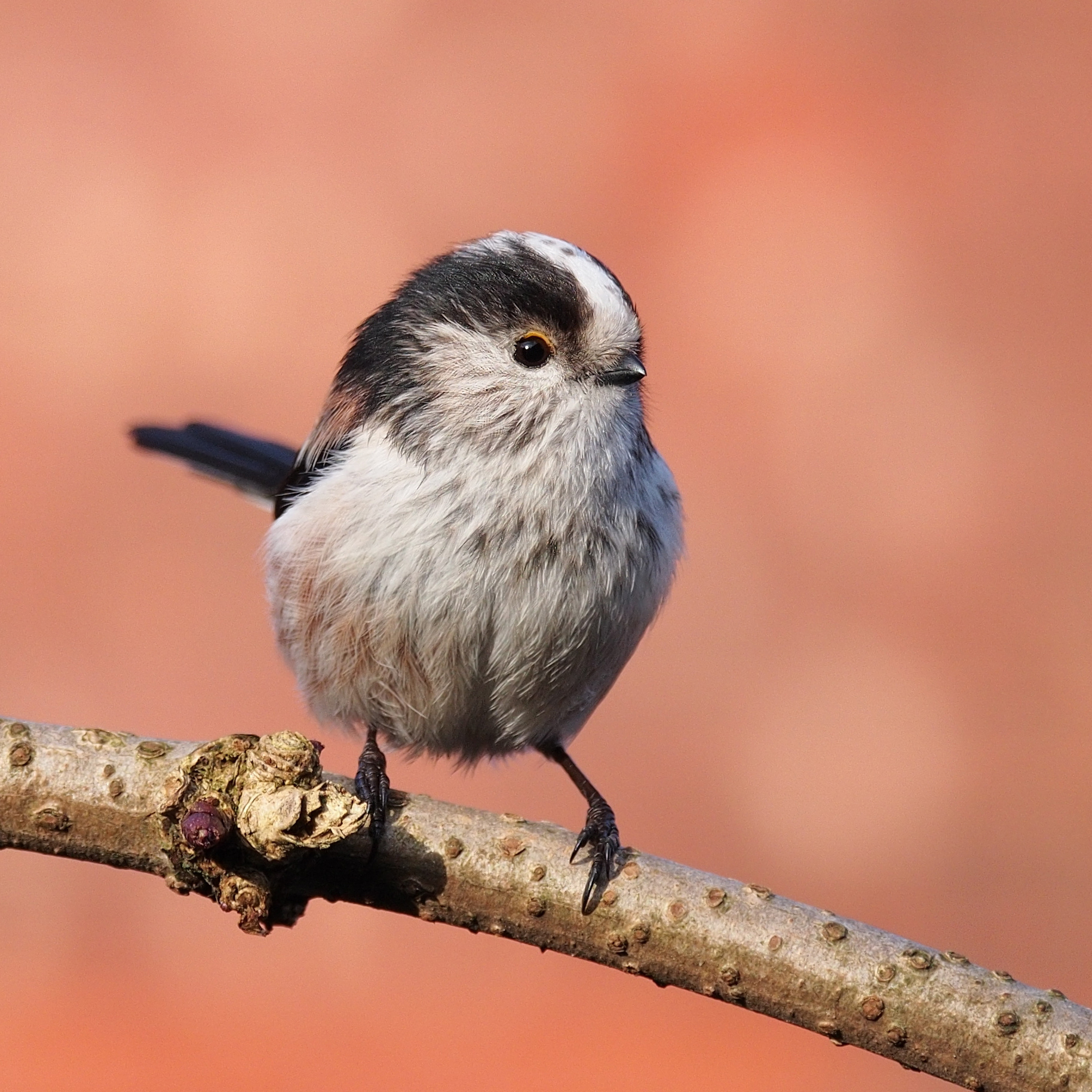 Long-tailed tit in late-afternoon winter sun